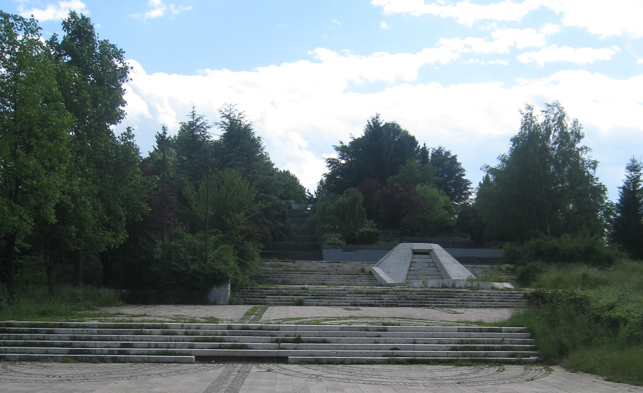 The Vraca Memorial park was opened to the public in 1981 to honor the citizens of Sarajevo who died under Nazi rule in World War II. It was destroyed destroyed during the Yugoslav conflict when it was used as an outpost for the Serbian forces which besieged the city.